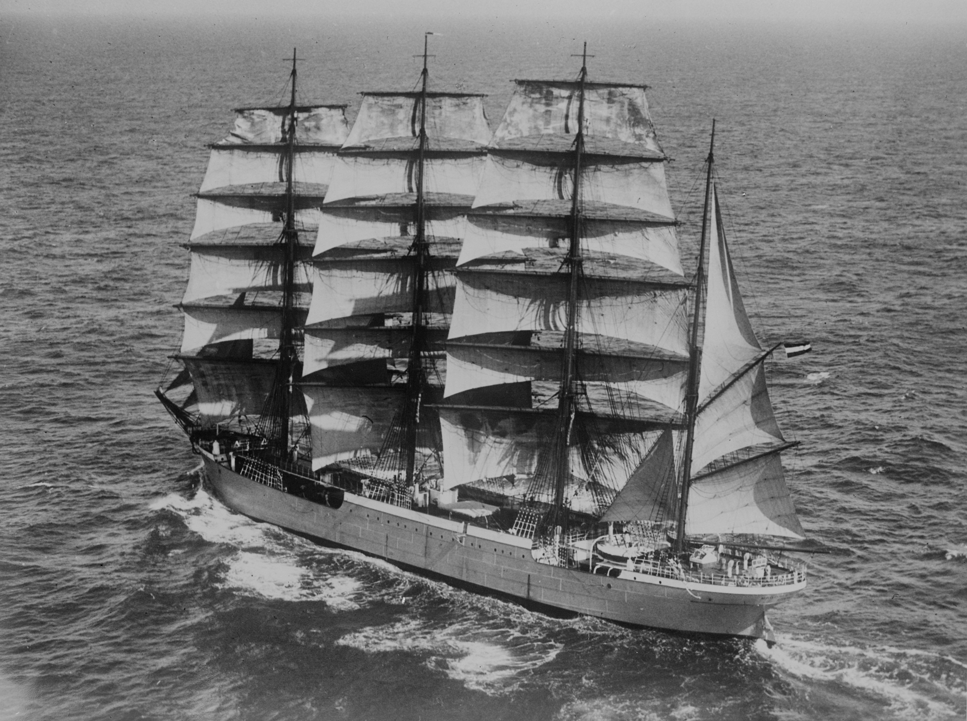 Four masted barque „Magdalene Vinnen“, now „Sedov“.